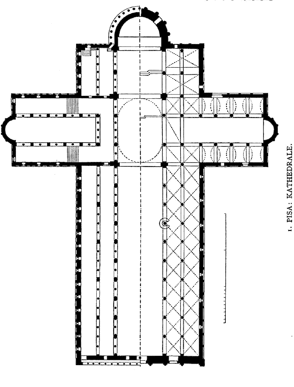 Plan of the cathedral of Pisa, horizontal combination of various levels